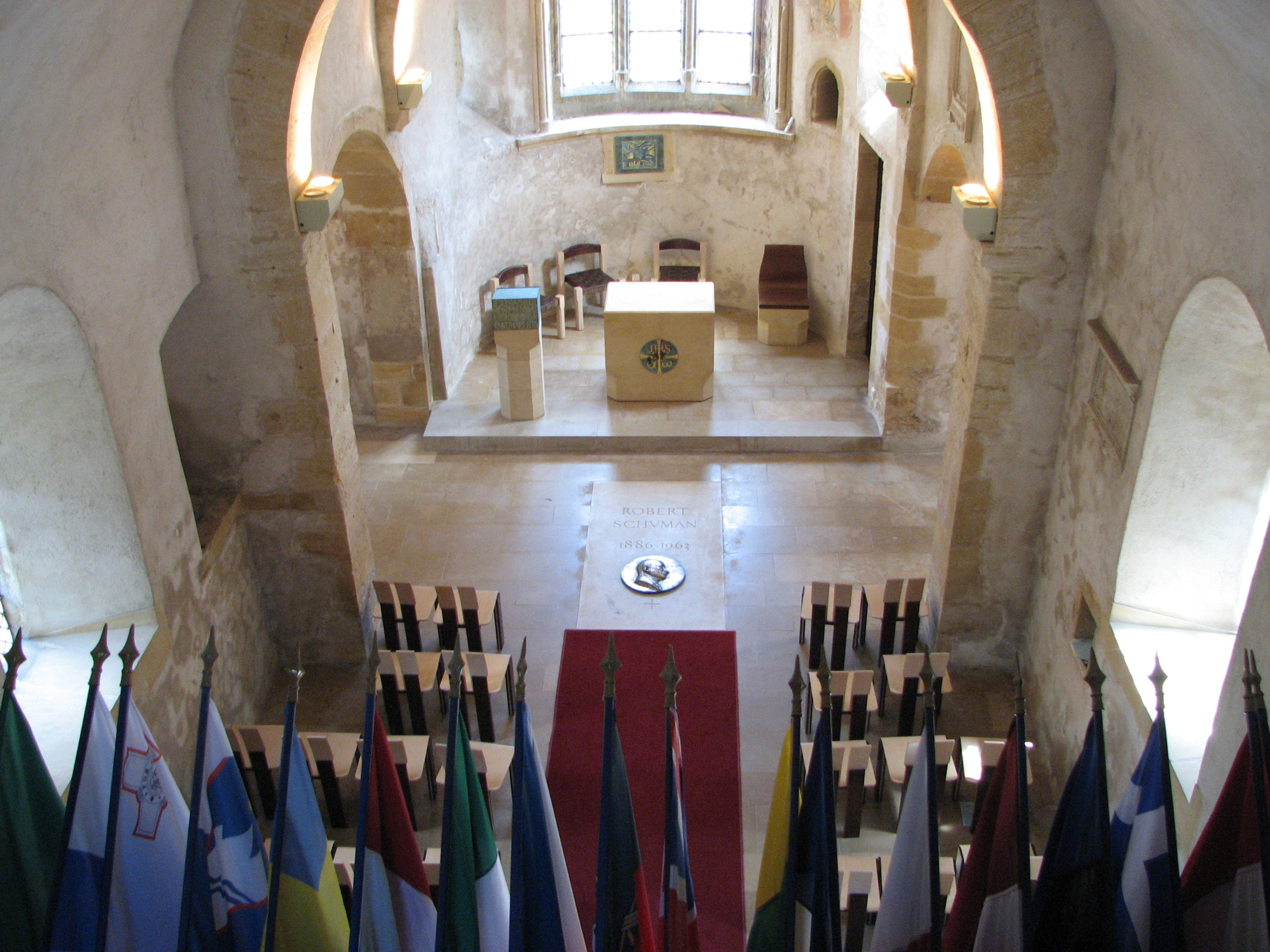 Eglise Saint-Quentin in Scy-Chazelles (near Metz, in East of France) with Robert Schuman grave and all the European Union country flags